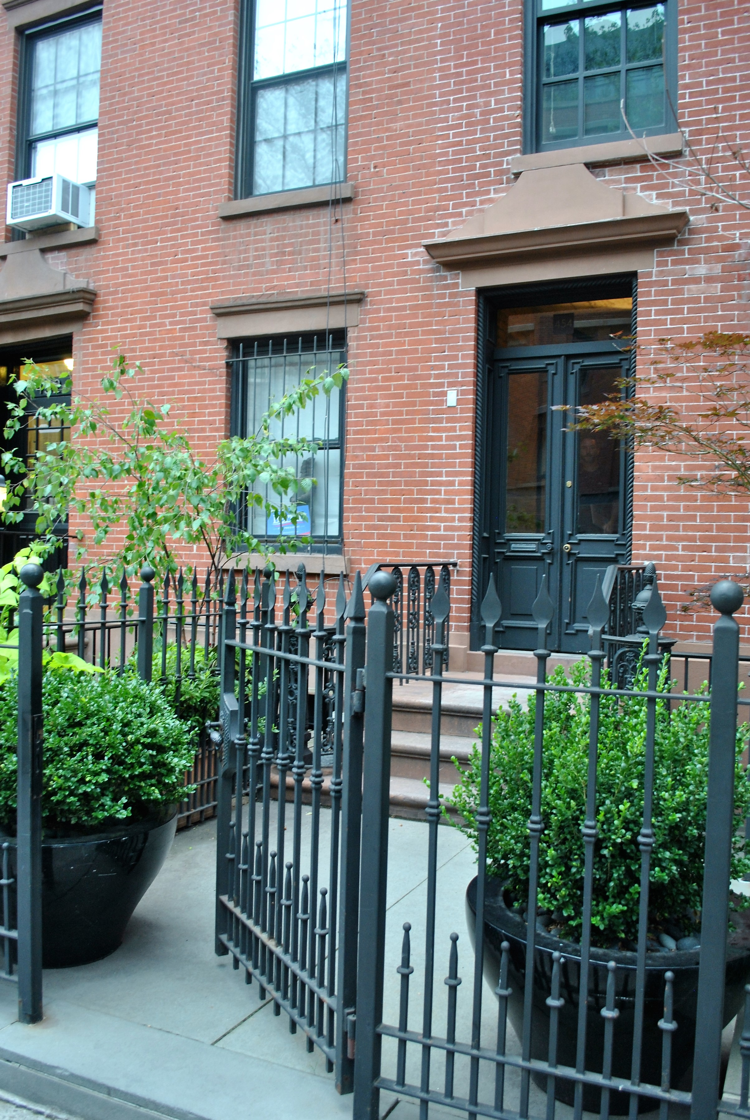 Image originally published in Queer Places: Retracing the Steps of LGBTQ people around the World Authored by Elisa Rolle